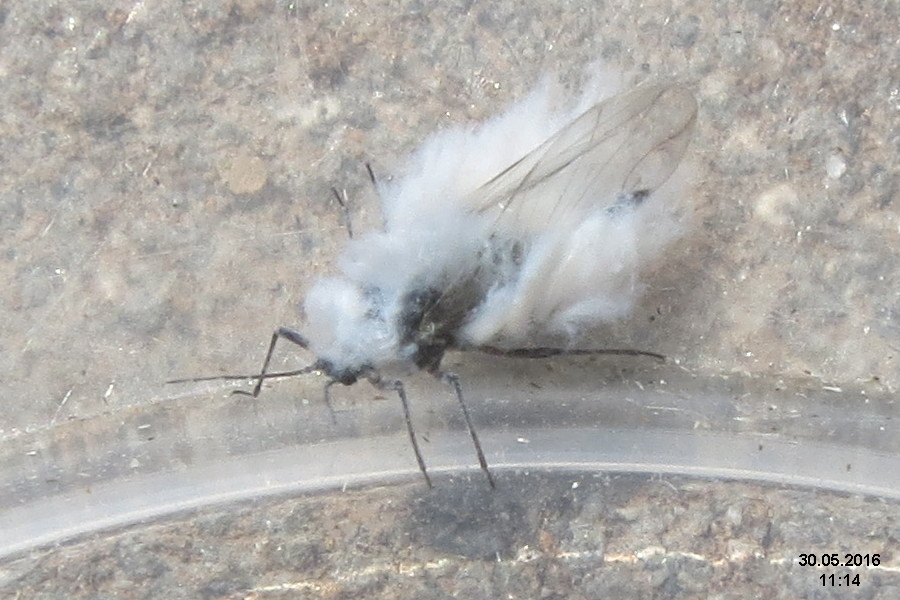 Caught on the wing among all the other flying fluff. Species unknown.